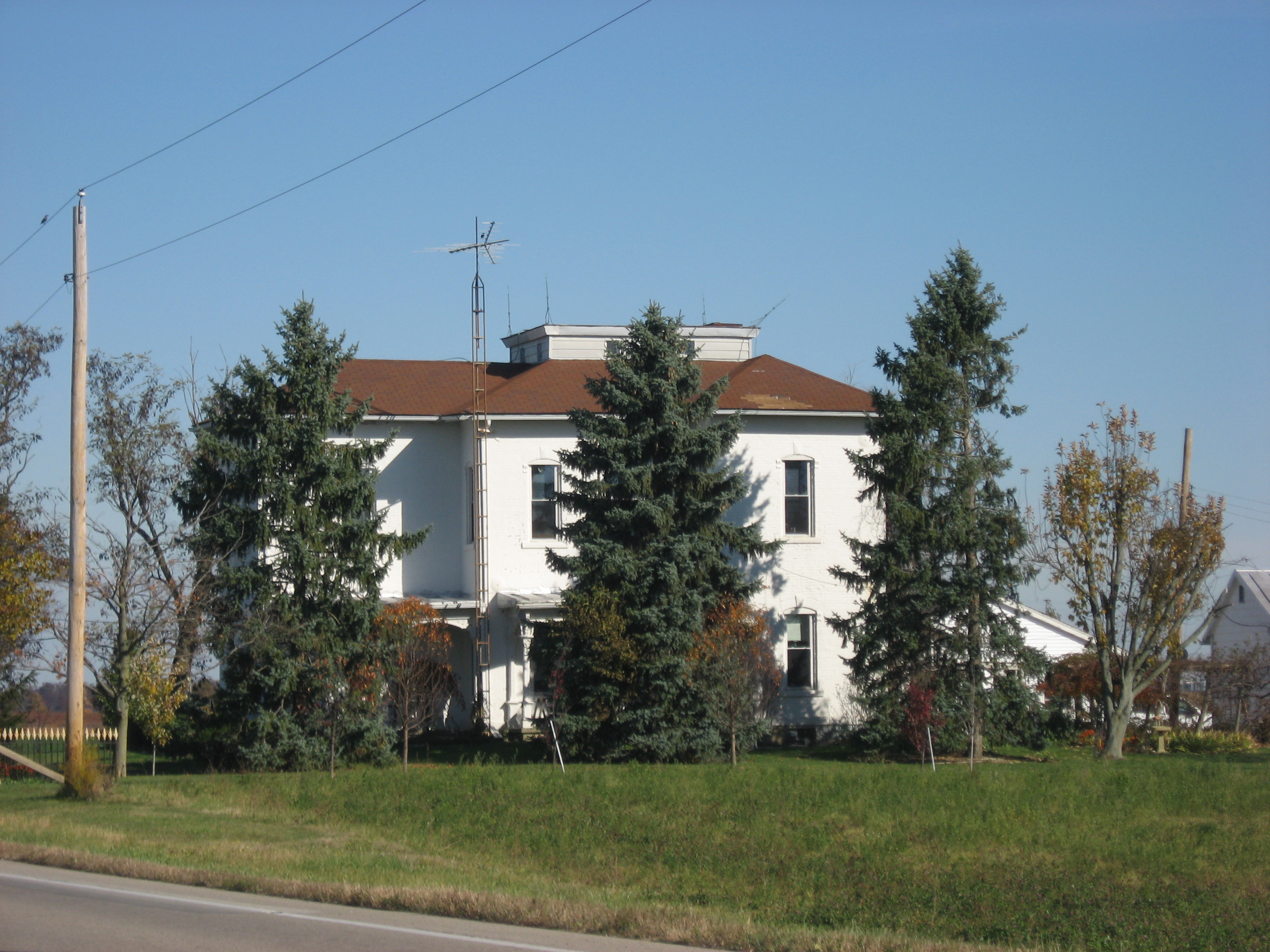 Southern side of the William English House, located at 11291 State Route 47 northeast of Versailles in Wayne Township, Darke County, Ohio, United States. Built in 1881, it is listed on the National Register of Historic Places.